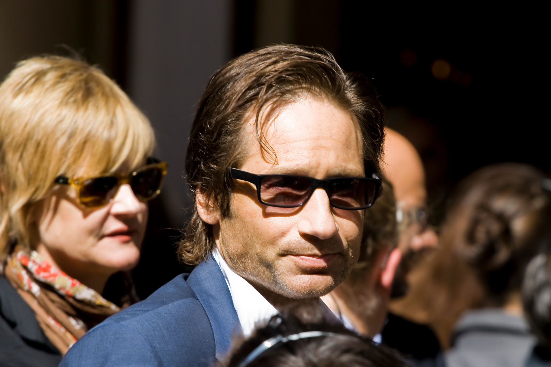 At the premiere of "The Joneses", during the Toronto International Film Festival, 2009.